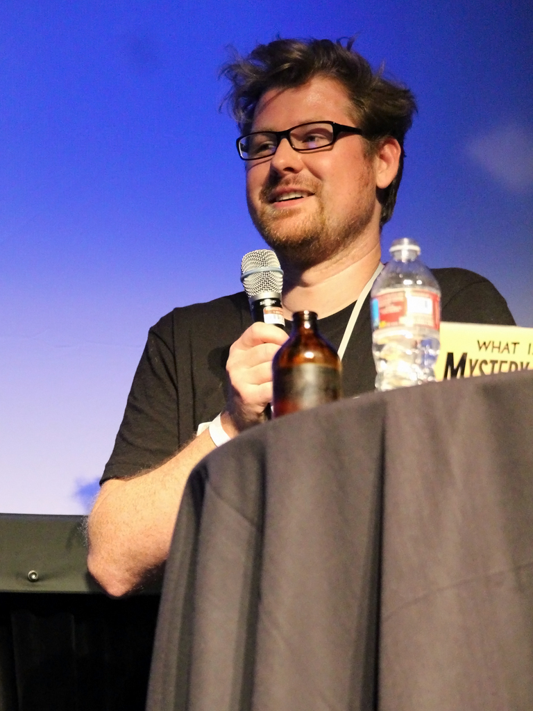 Justin Roiland at the 2015 XOXO festival in Portland, Oregon.